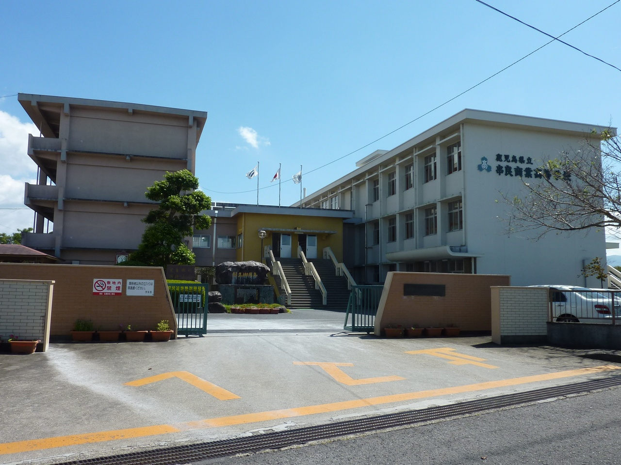 Kushira Commercial High School (Kanoya City, Kagoshima, Japan)